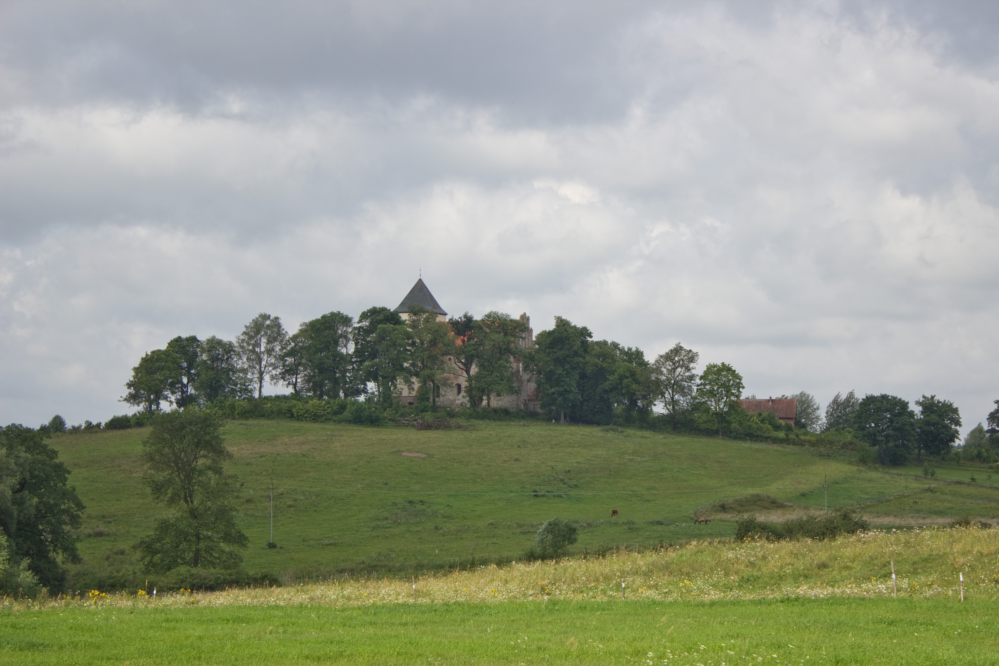 Bezławki, gmina Reszel, powiat kętrzyński, Warmian-Masurian Voivodeship